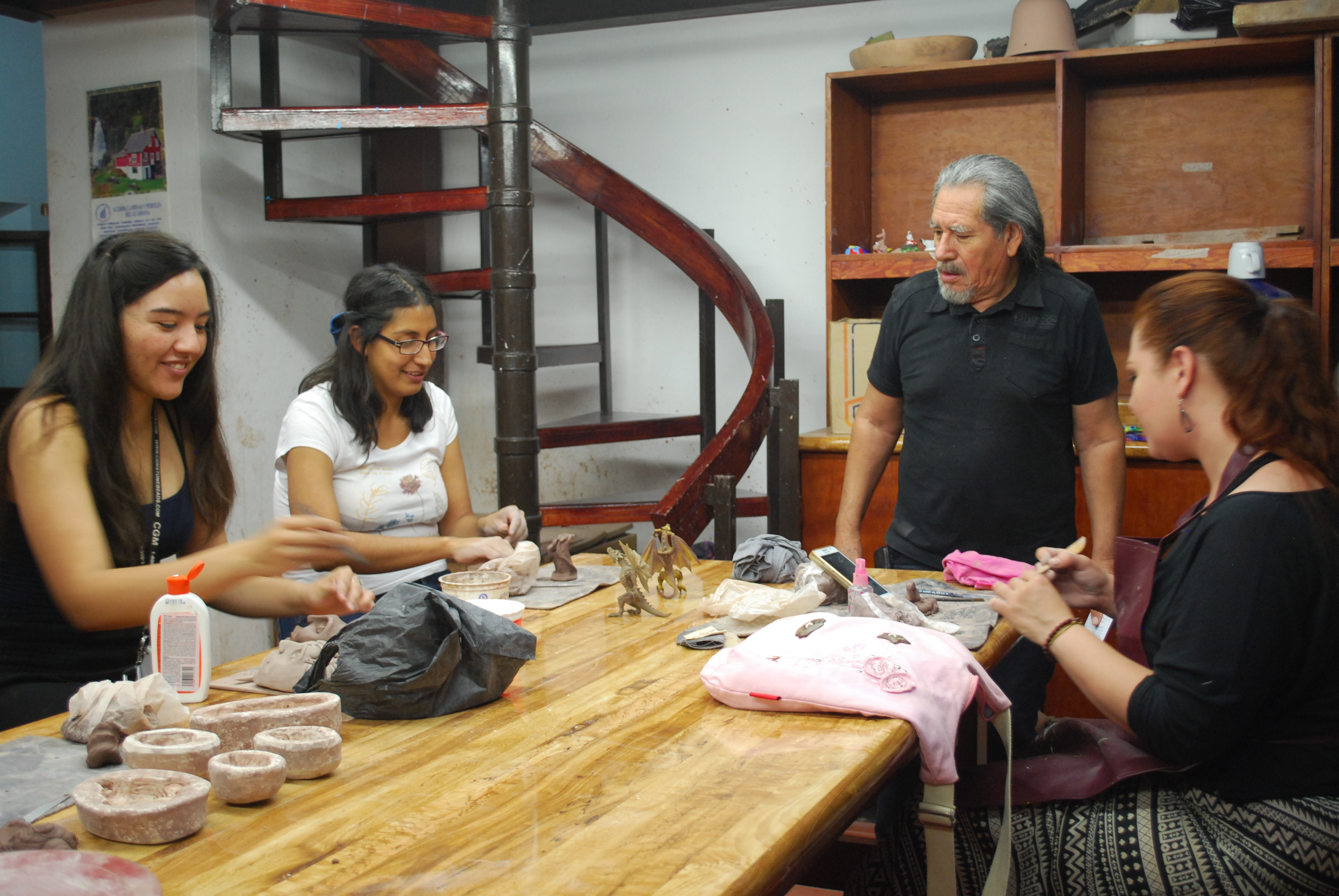 Trinidad Nuñez Quiñones with students at the Trinidad Nuñez Quiñones workshop in the Casa de Cultura in Victoria de Durango, Mexico